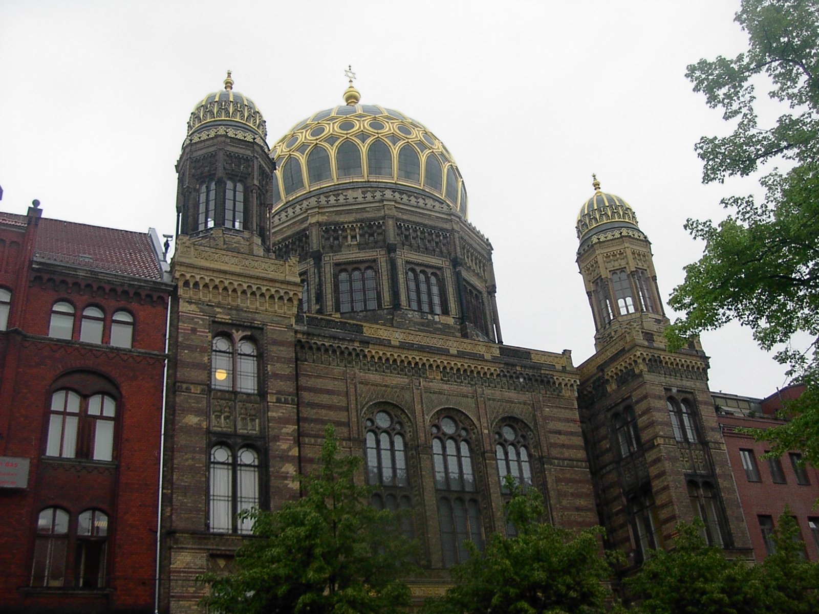 New Synagogue, East Berlin